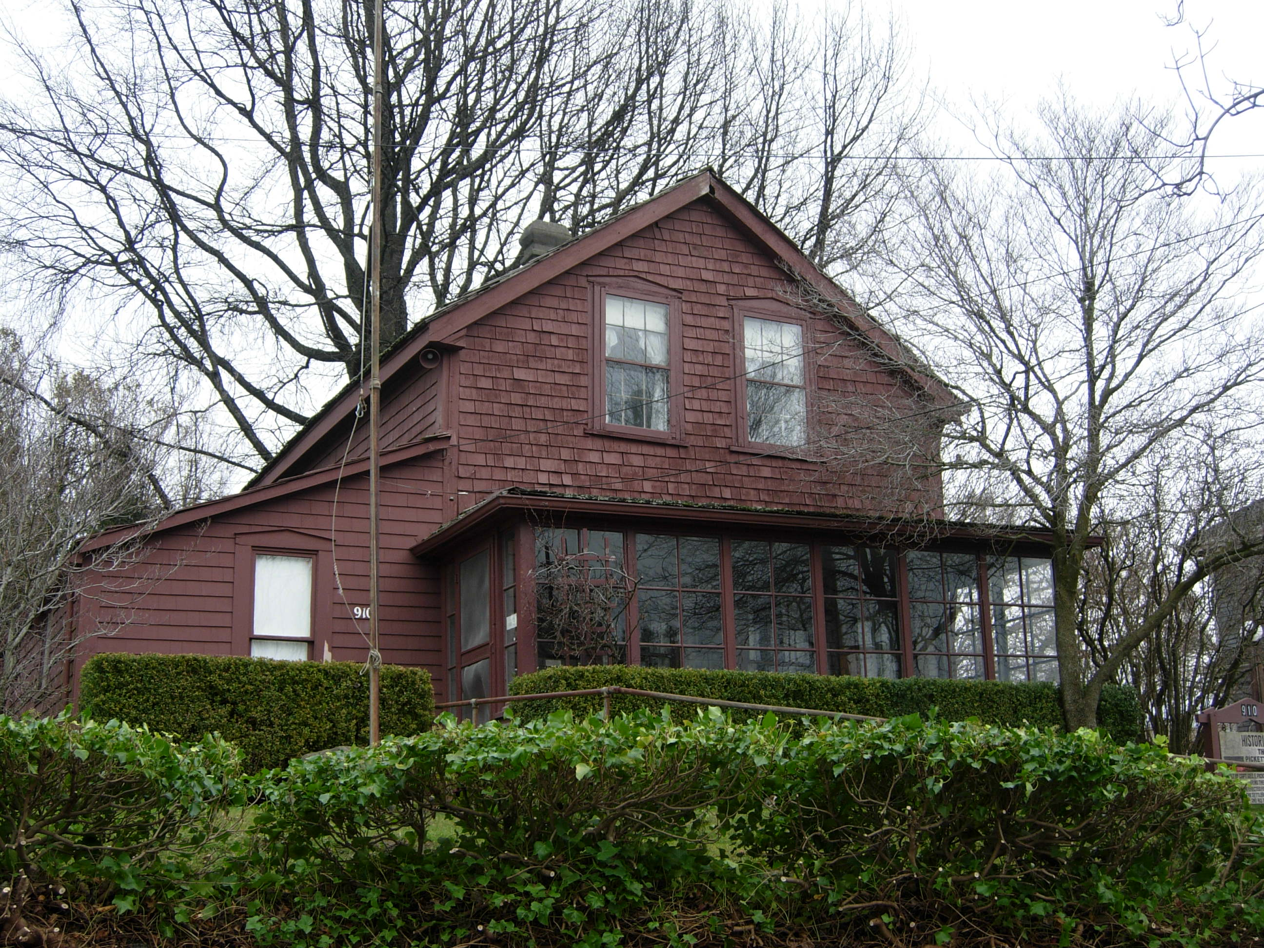 The Pickett Home in Bellingham, Whatcom County, Washington